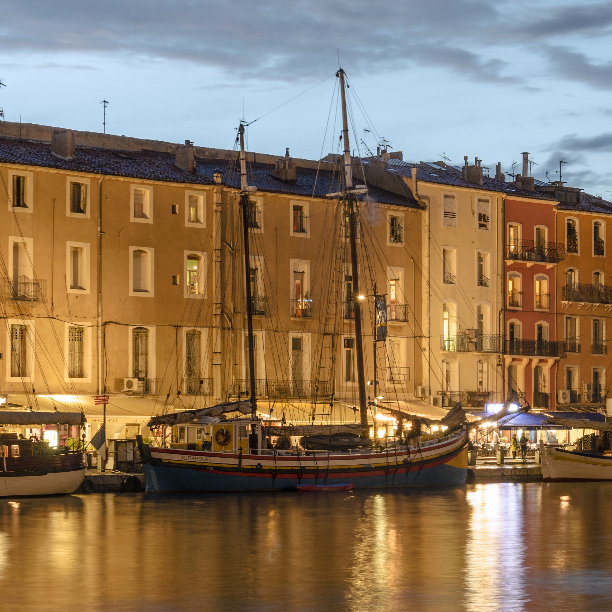 The Albarquel (ship, 1957) moored at the Quai Général Durand (embankment) during the event Escale à Sète 2018 - Sète, Hérault, France